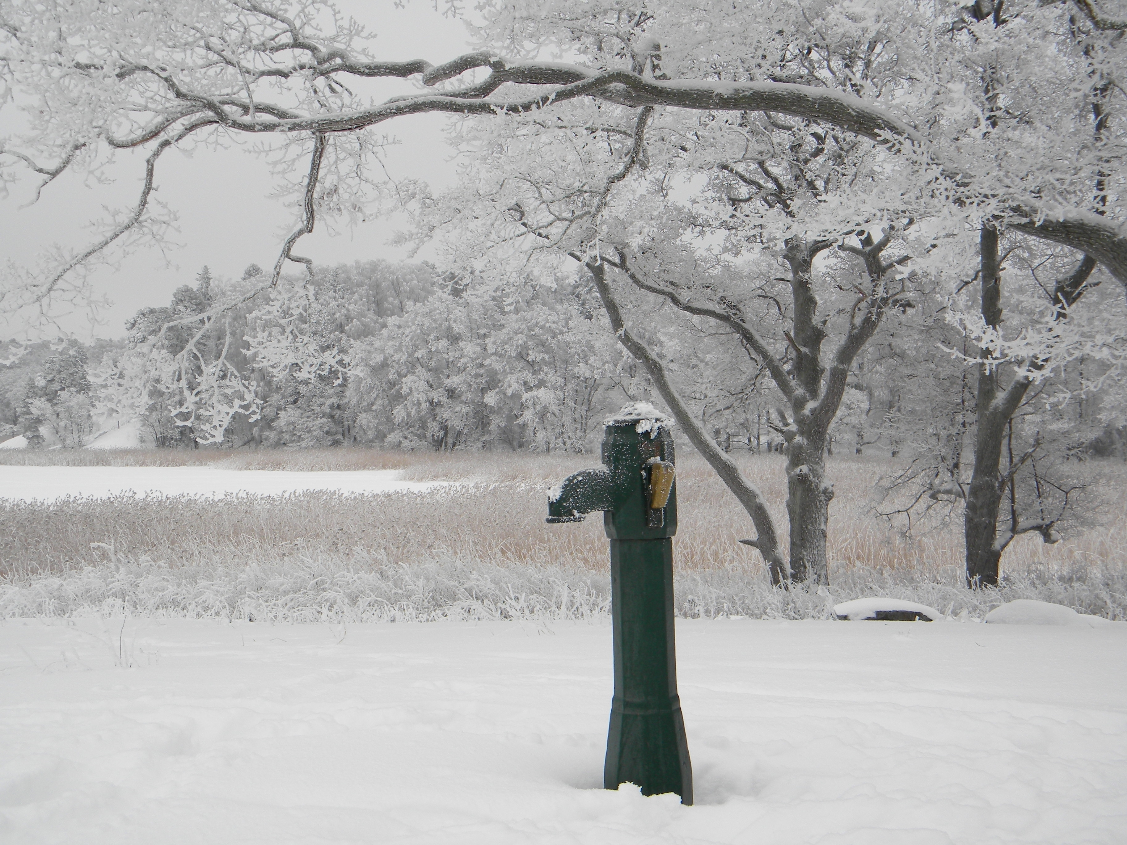 A standpipe in January "winter wonderland" in park area of Tullisaari (sv. Turholmen), Helsinki. One third of Helsinki is green area. Tullisaari park is located on the island of Laajasalo (sv. Degerö). The history of a farm located on Tullisaari began in the 1500s, however no farm buildings from those days are saved. The green area was mainly built in the 1800s. The Aino Ackté's Villa, built in 1800s, is in Tullisaari, located near the shoreline. Ackté (1876 - 1944) was a Finnish soprano.